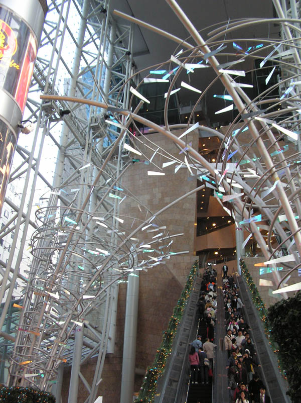 The "Langham Place" Shopping Mall in Mong Kok, Hong Kong, China